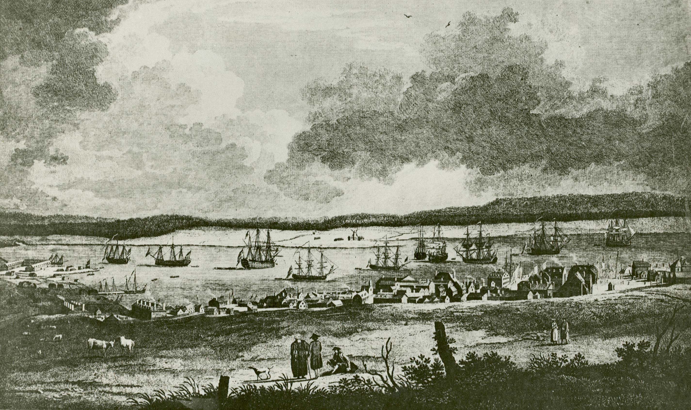 "The Town and Harbour of Halifax in Nova Scotia looking down George Street to the opposite shore called Dartmouth" From a drawing by Richard Short, described and published, 1 March 1764, London, England, James Mason engraver; subsequently painted by D. Serres and published by John Boydell, London, 25 April 1777. This sketch was executed in 1759 while Richard Short was in Halifax during the Seven Years' War, with the British fleet, bound for the siege at Quebec. Short was an amateur artist and the purser on board HMS Prince of Wales.